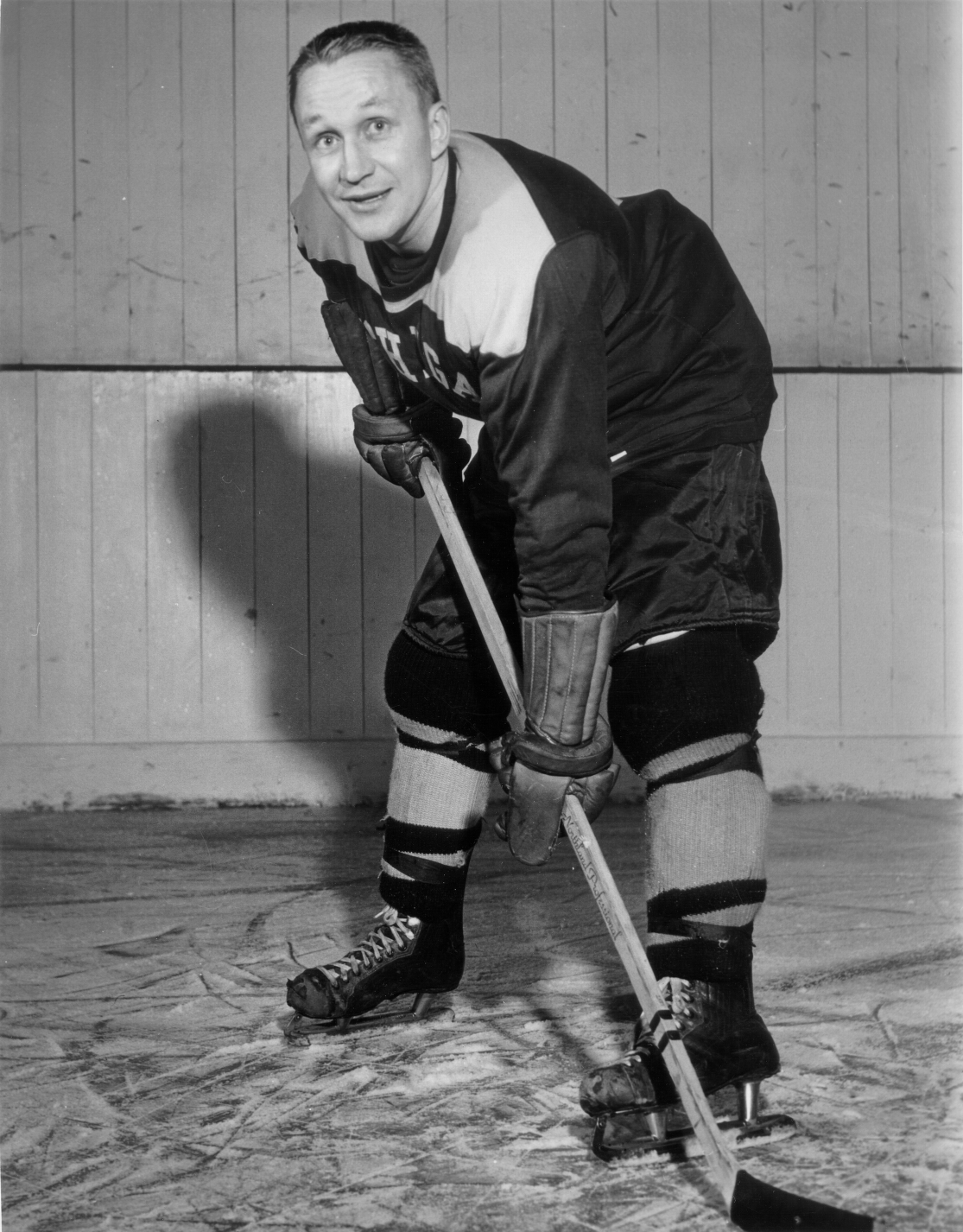 Photograph of 1948–49 Michigan Wolverines men's ice hockey player Connie Hill